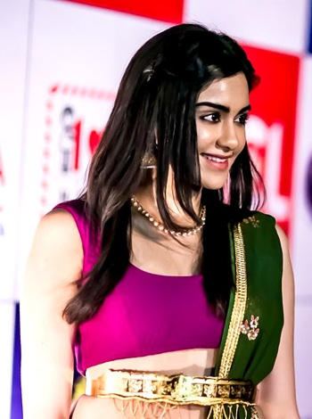 Actress Adah Sharma at the CCL Hundred Hearts charity dinner Cropped from the original